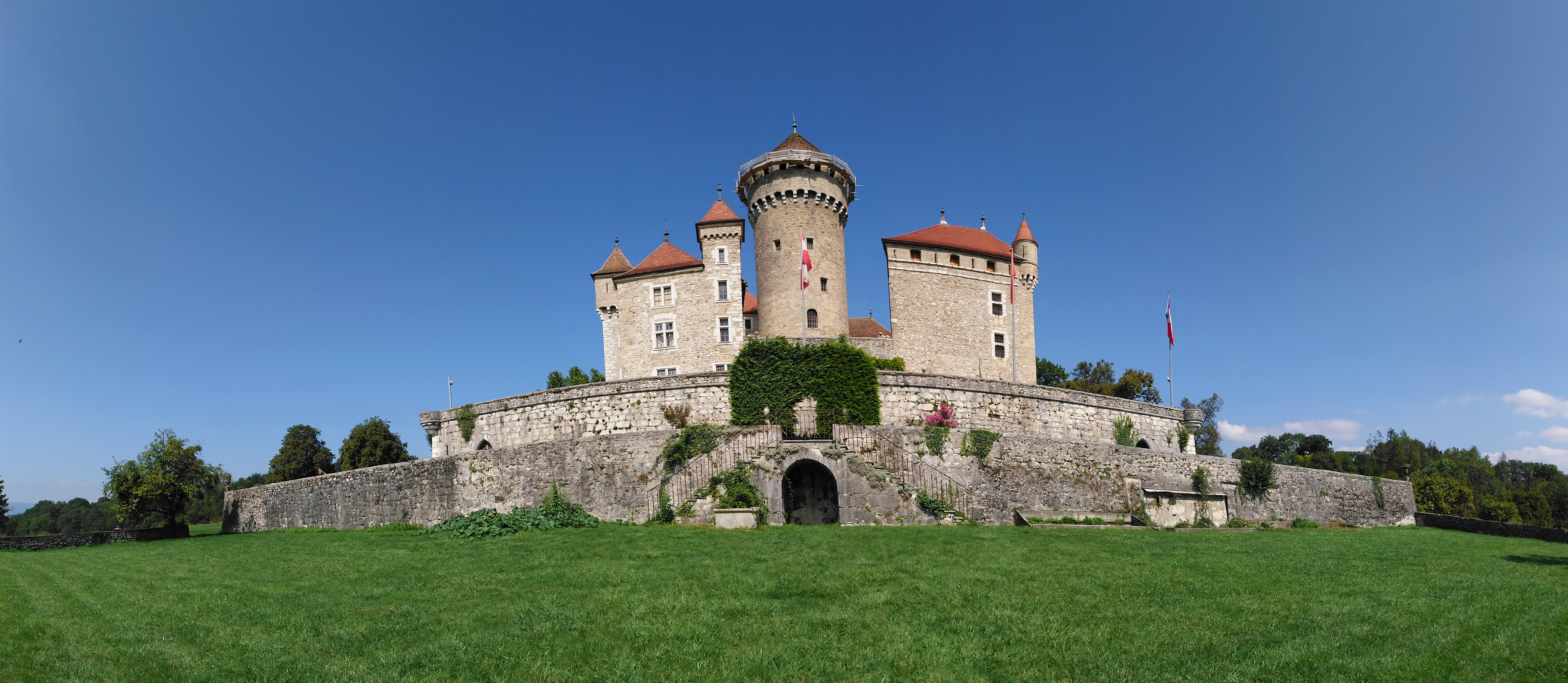 Montrottier Castle in August 2019. Lovagny, France.